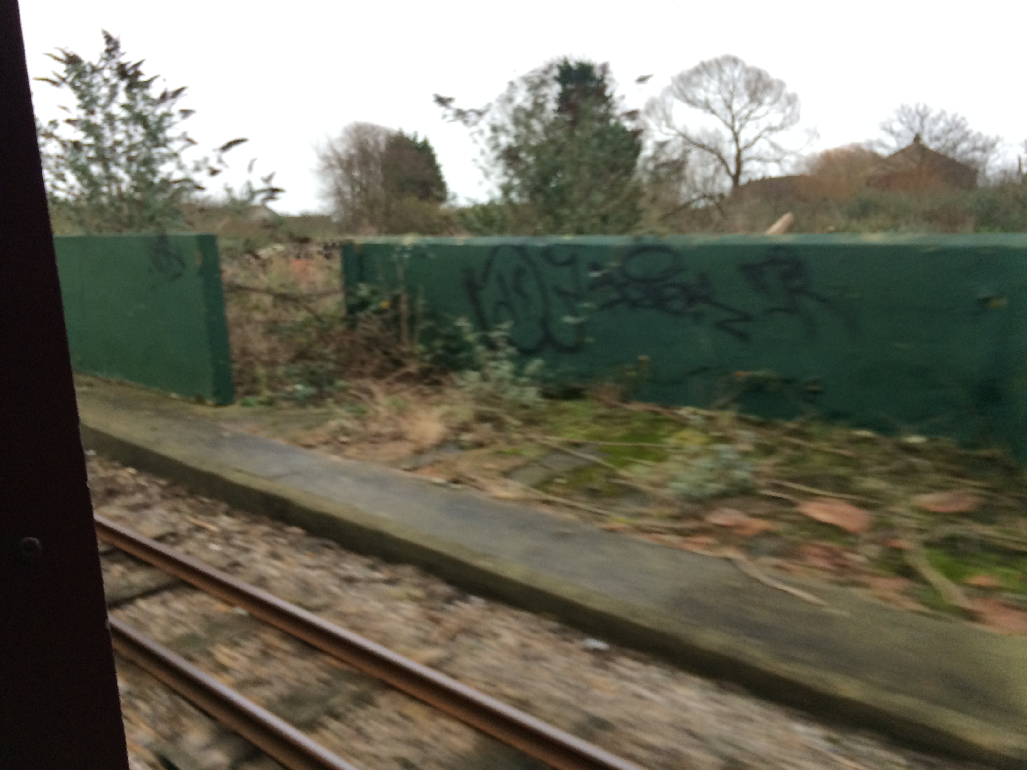 The surviving platform of the former Golden Sands railway station (now closed), seen from a passing train.